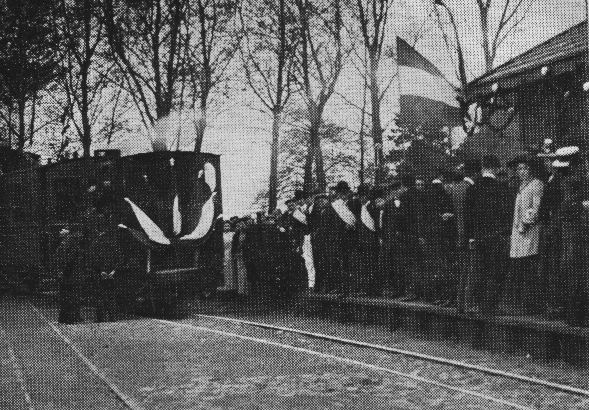 Grand opening Tram station at Bredevoort, Netherlands